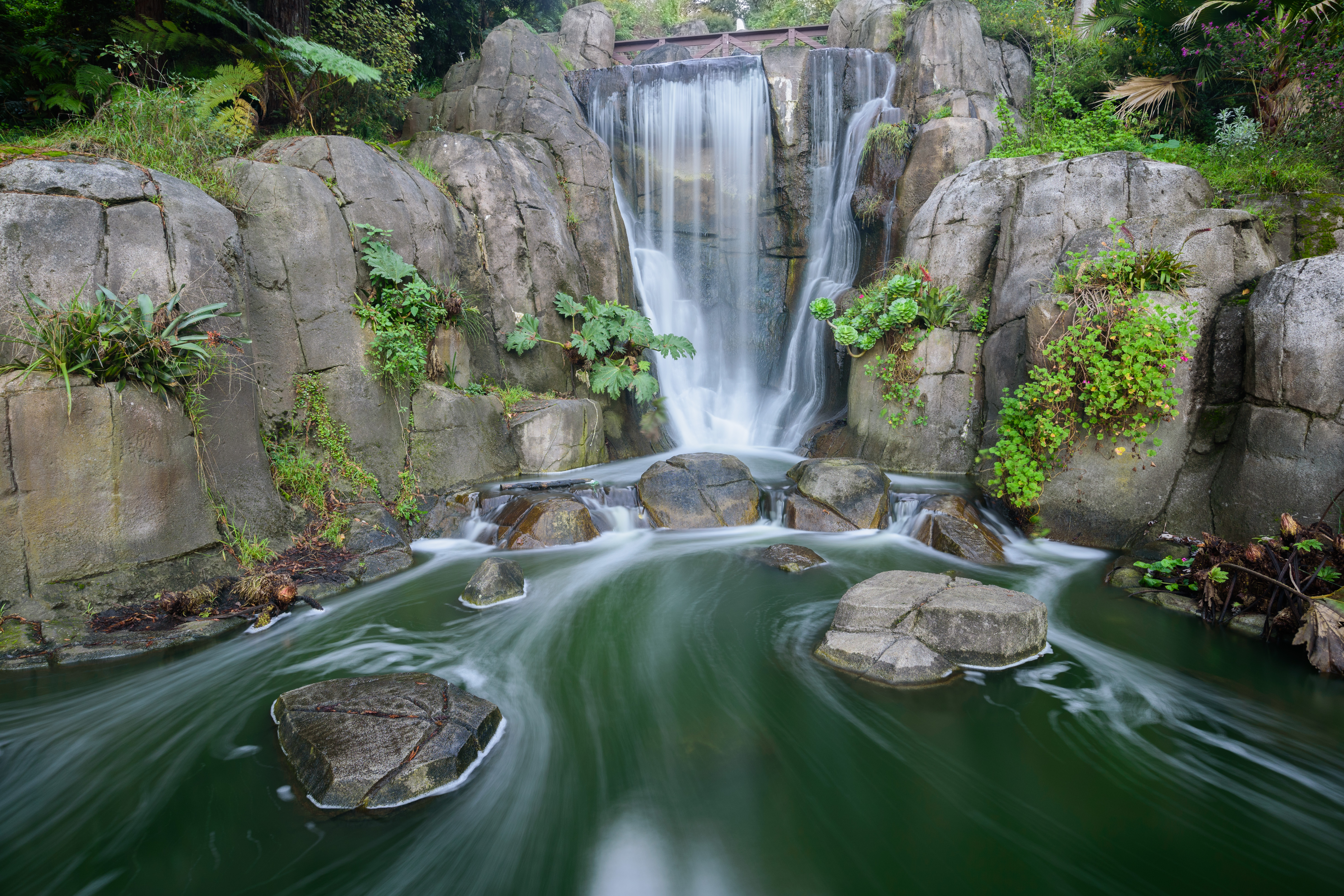 Huntington Falls, Golden Gate Park, San Francisco.